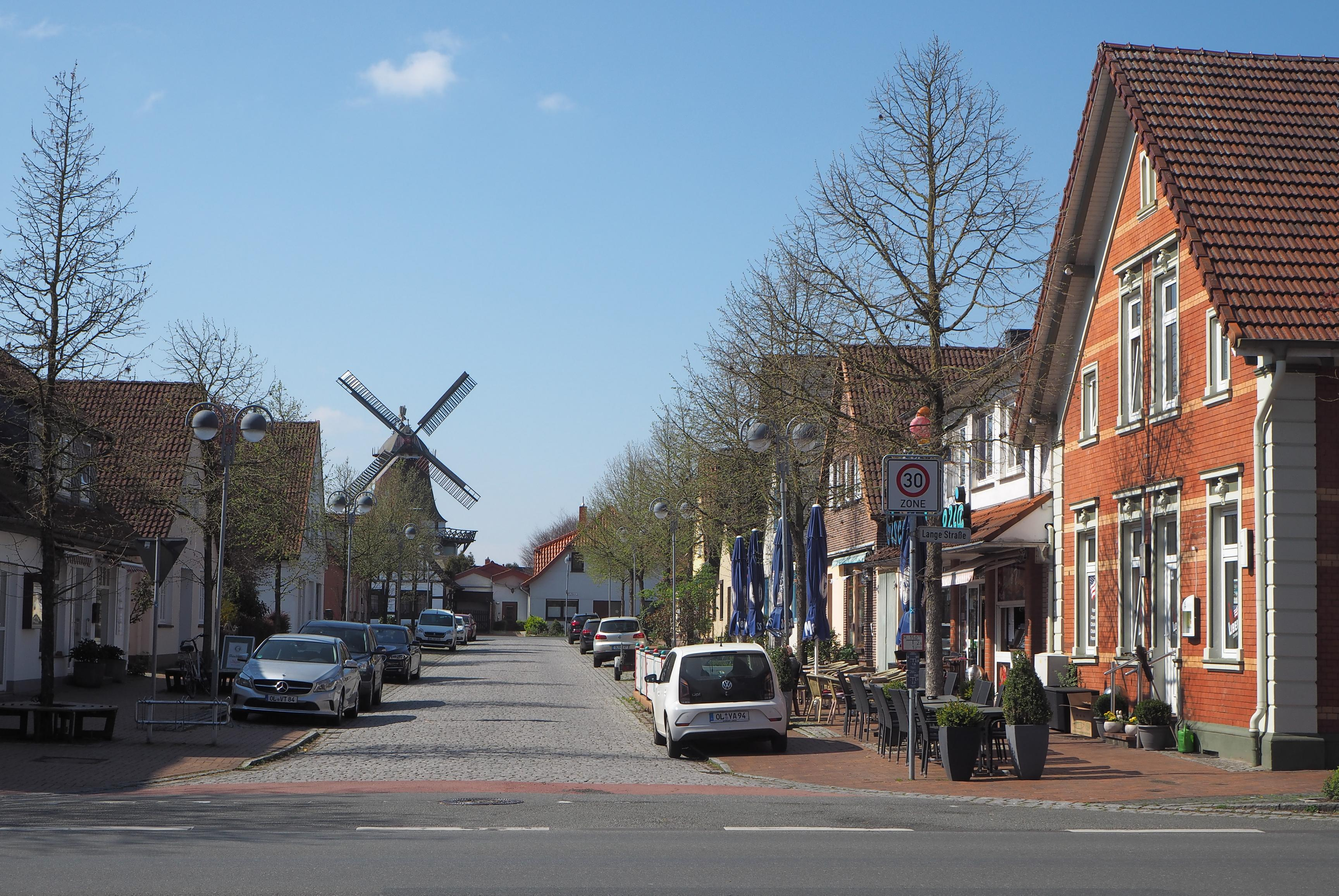 Harpstedt (Germany, Lower Saxony) - Freistraße with windmill